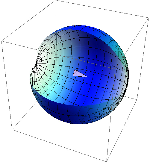 appears to be a representation of an Einsteinian Alcubierre drive, or a fictional Warp drive.